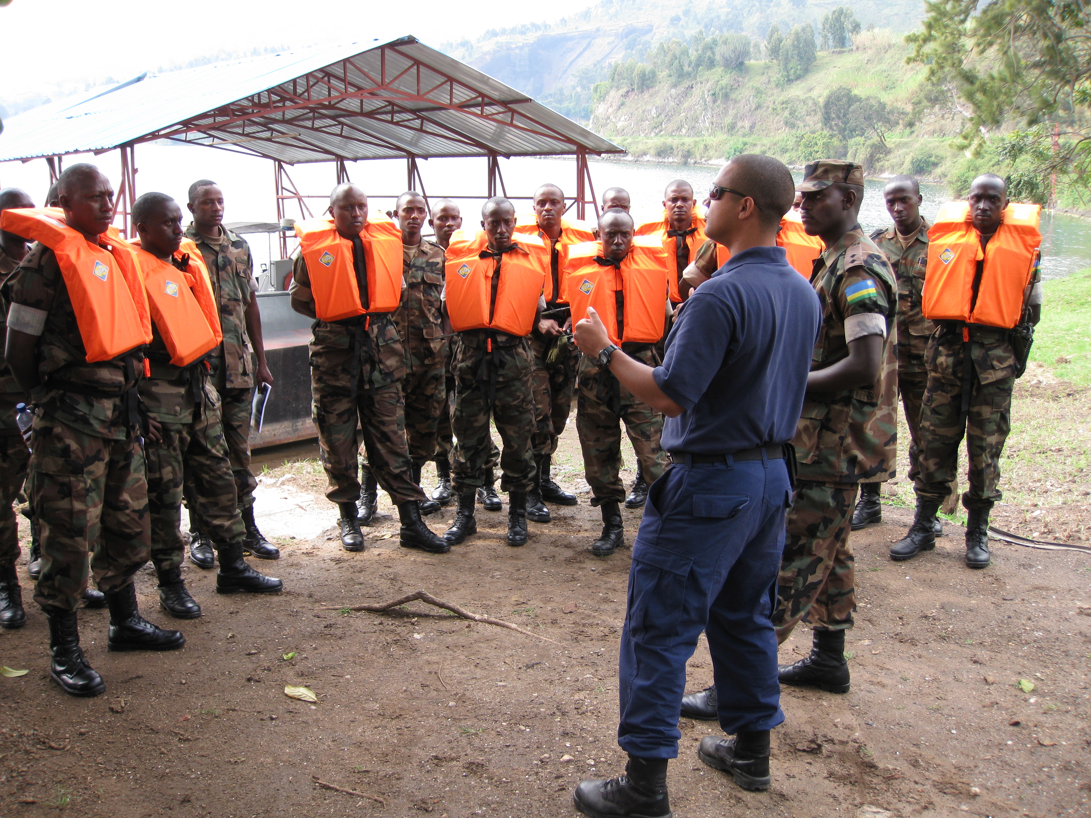 Rwanda marine officers attending a lesson during the training